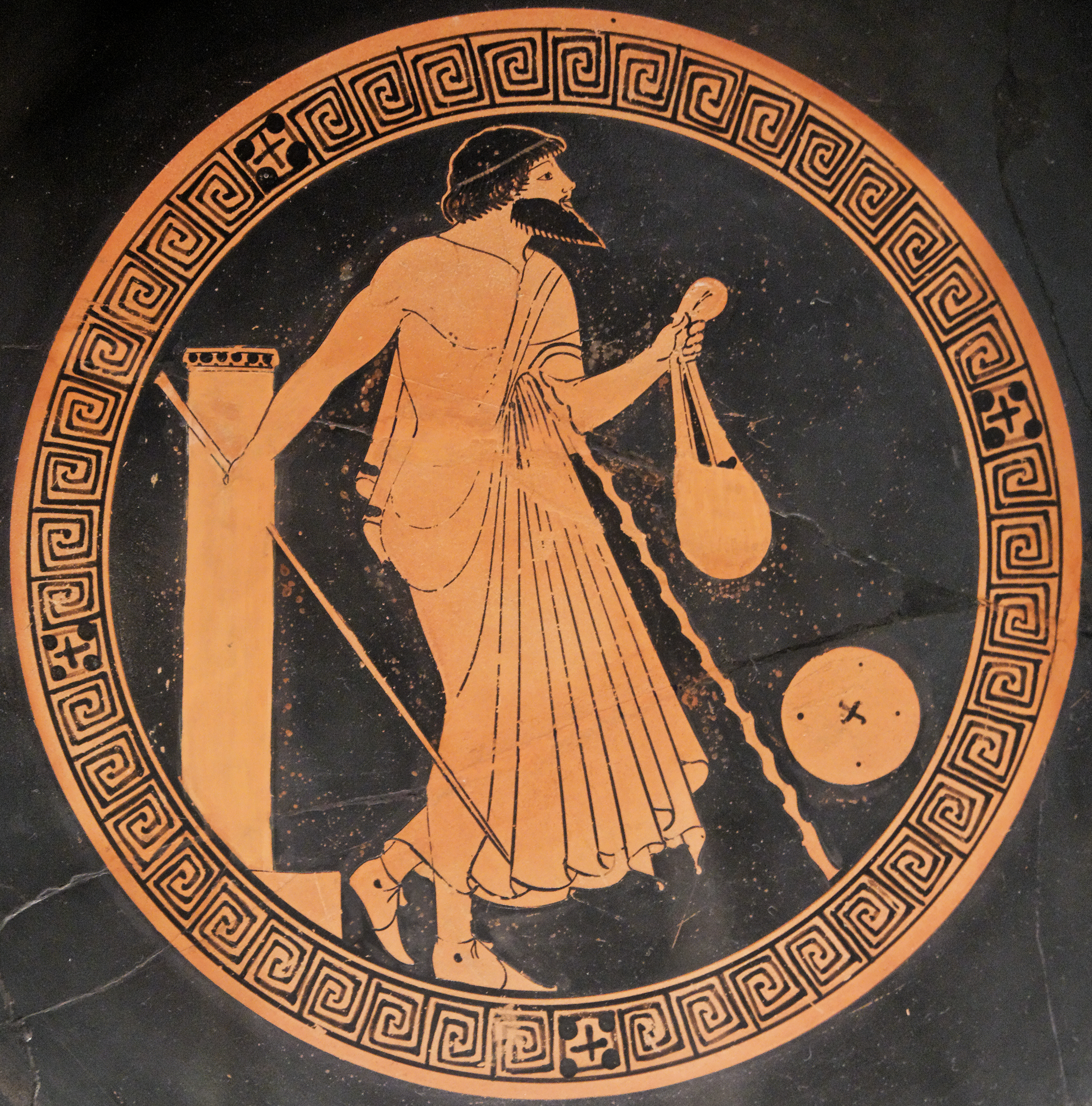 Trainer at the palaistra. Tondo of an Attic red-figure kylix.